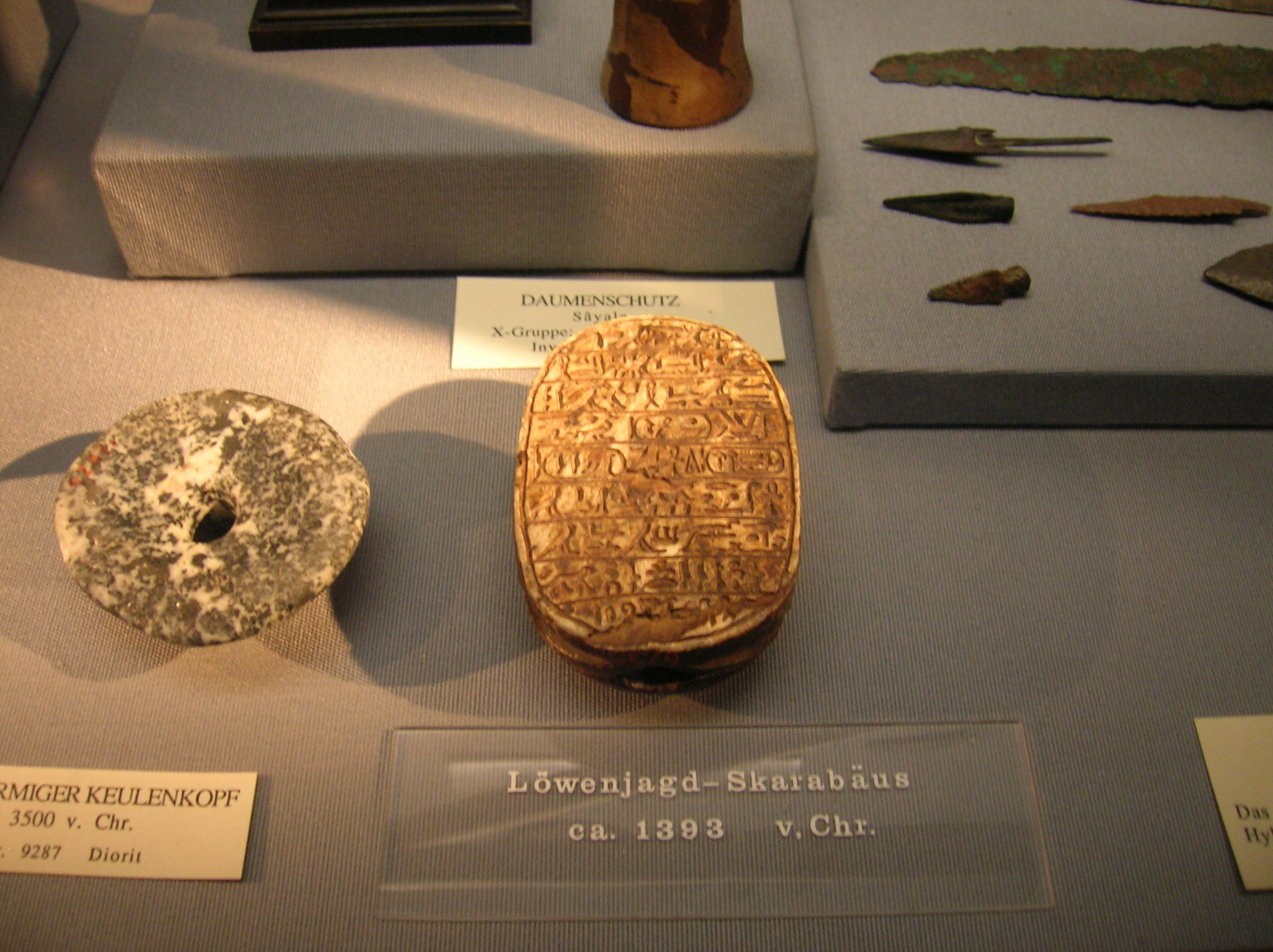 Lion hunt scarab of Amenhotep III, (ca 1393 BC). Egyptian macehead, ca 3500 BC.